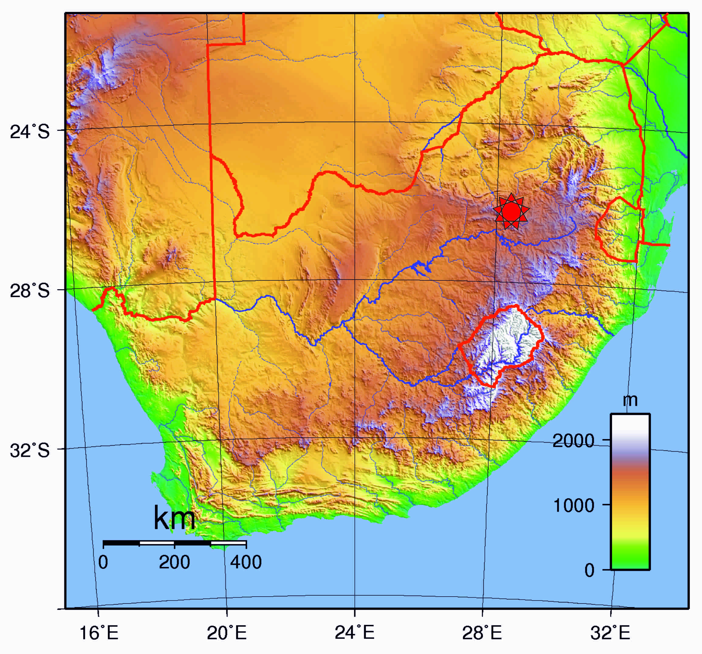 Cradle of Humankind, World heritage area, Gauteng province, South Africa (Australopithecus afarensis, Australopithecus sediba, Homo naledi, Paranthropus robustus)